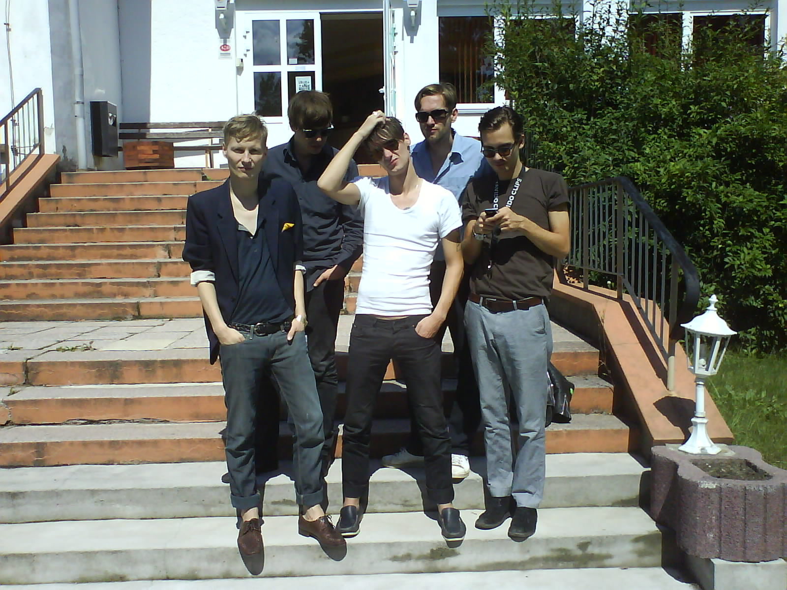 Musical group from Germany "The Aim of Design Is to Define Space", backstage in Lugau